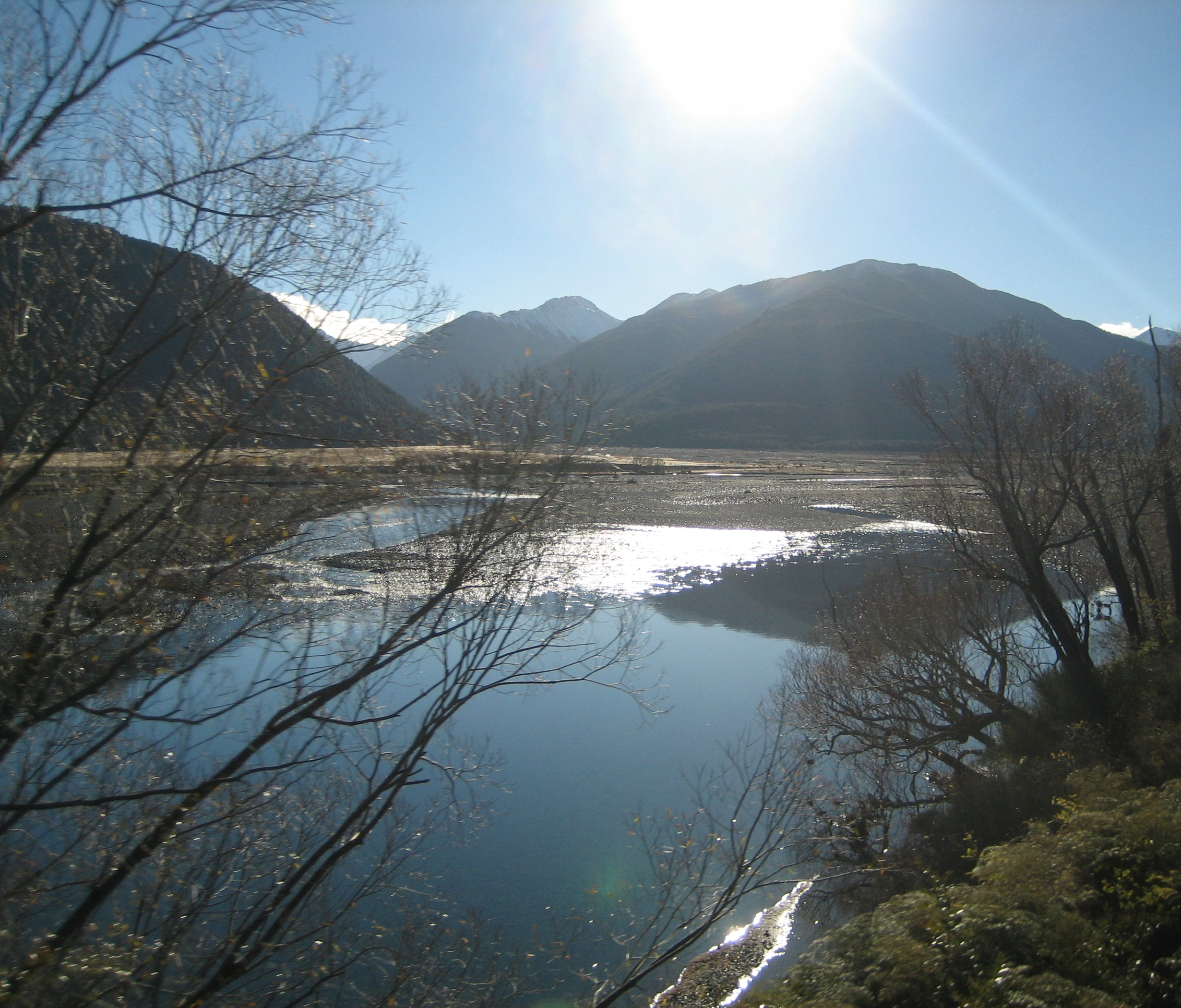 Photographer: Jason Hopwood Description: A view of the Southern Alps from the TranzAlpine. Soure: I Jason Hopwood (the creator) release this image to the public under the Attribution ShareAlike 2.5 (worldwide) license.